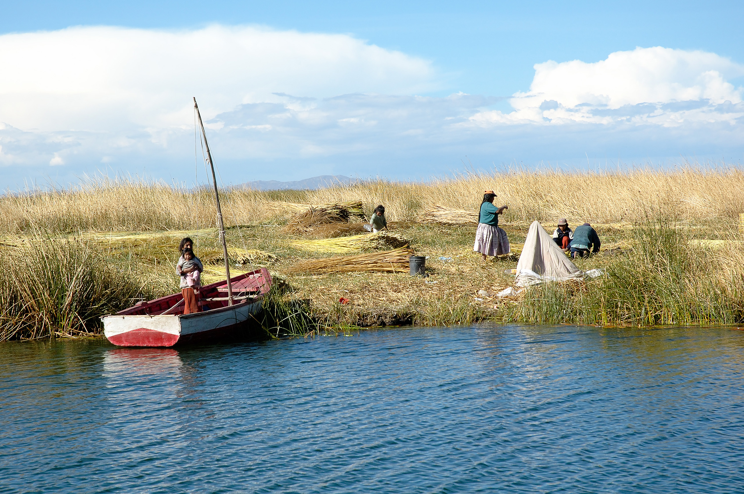 Uros people harvesting some "totora" (Schoenoplectus californicus ssp. tatora) on Lake Titicaca, Peru.